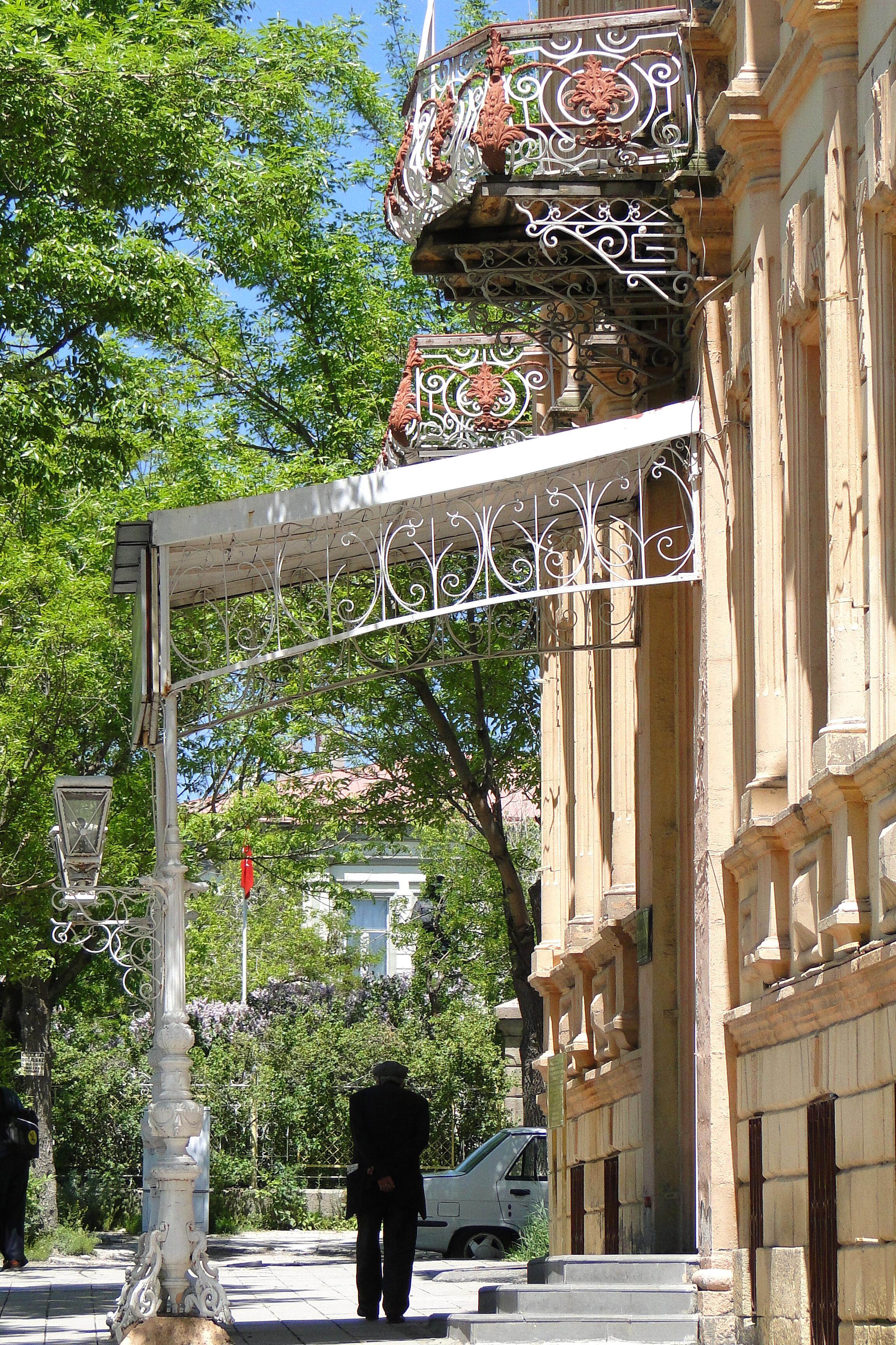 Belle Epoque Russian Architecture - Kars - Turkey - 02